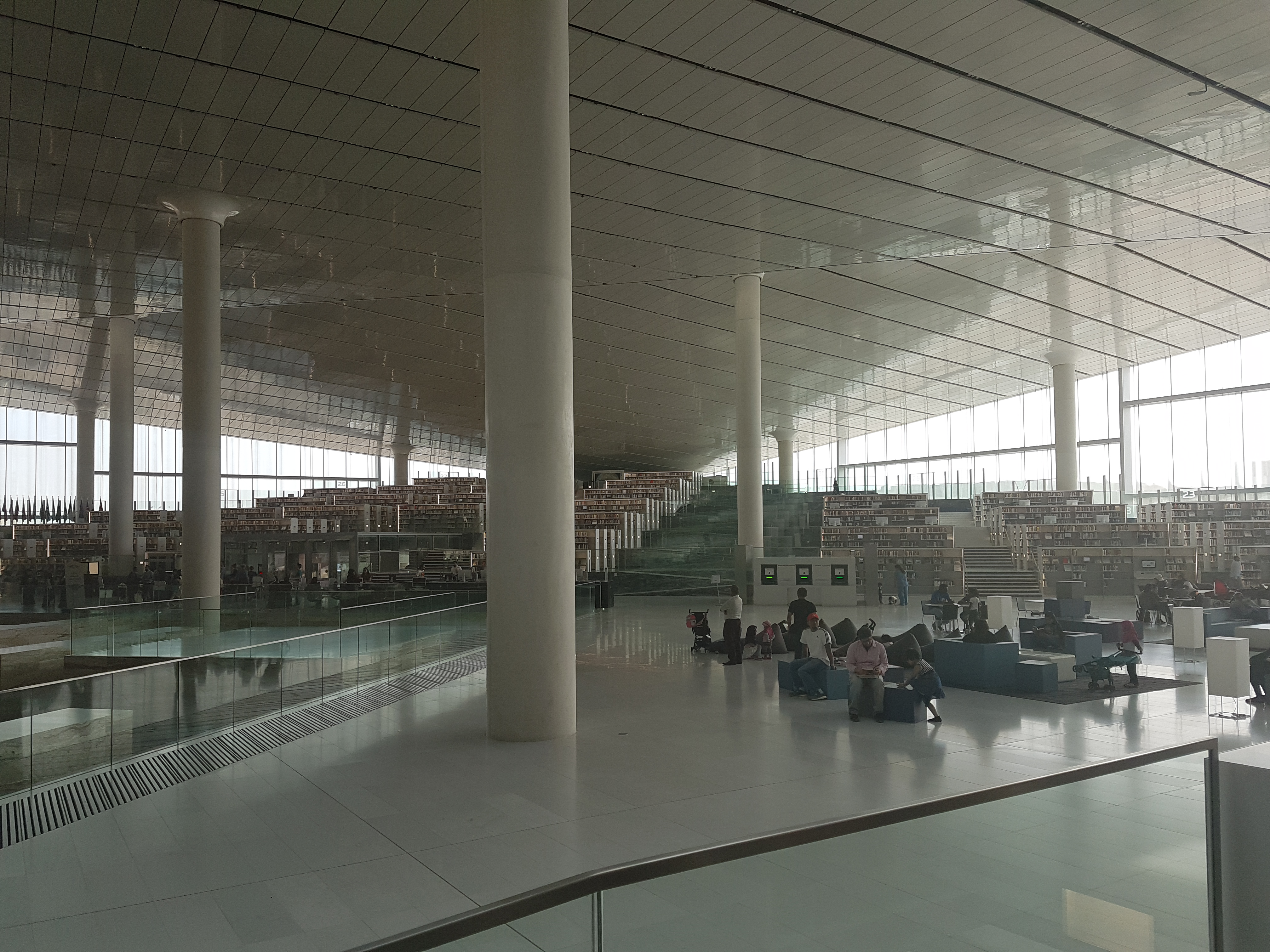 Qatar National Library